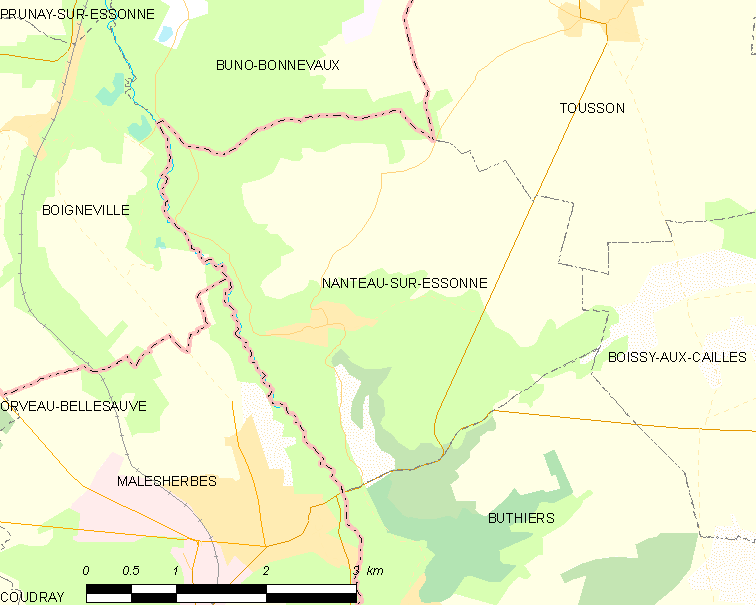 Map of French municipality Nanteau-sur-Essonne